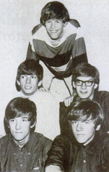 Trade ad for Herman's Hermits' single "I'm Henry the VIII, I Am".